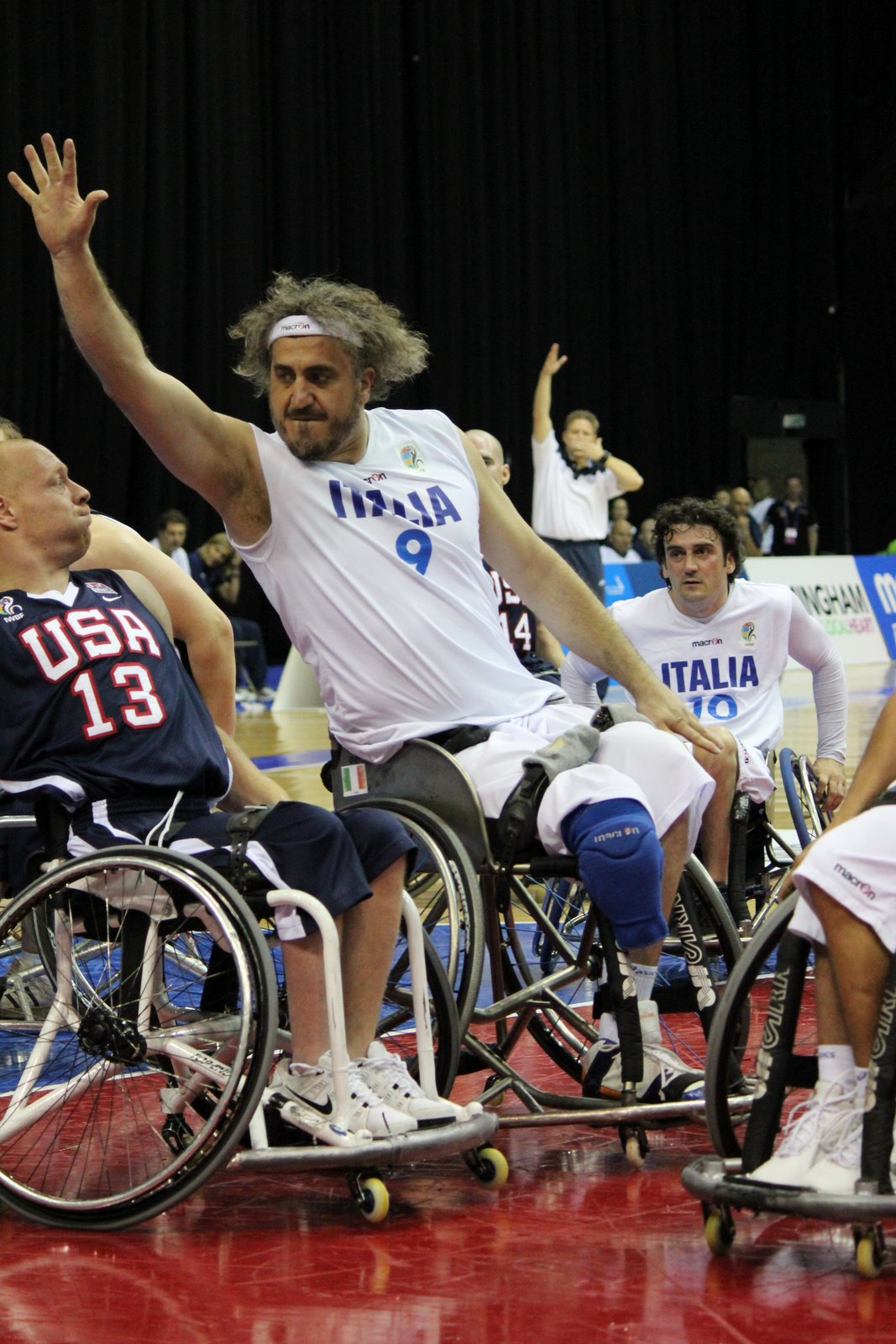 #9 Vincenzo Di Bennardo, in Italy vs USA, at the 2010 World Wheelchair Basketball Championship Men's Bronze Medal Game. Image from 2010 World Wheelchair Basketball Championship Media Blog